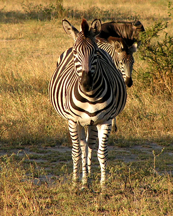 Chapman's Zebras (Equus quagga chapmani), Kruger Park, South Africa